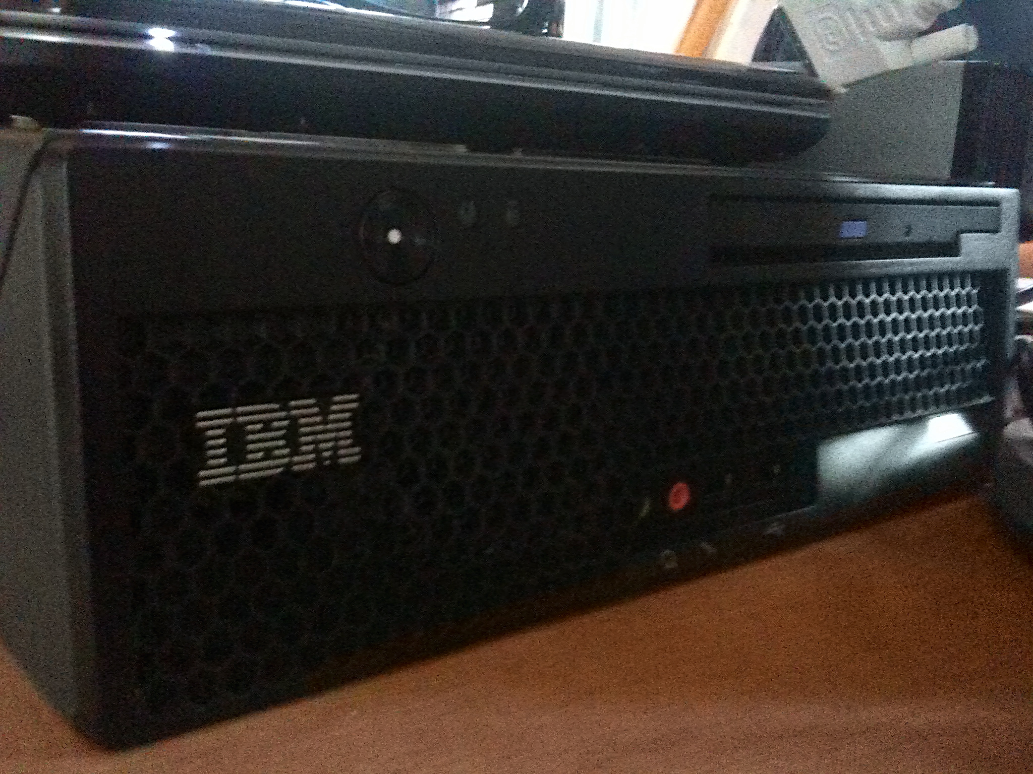 IBM ThinkCentre business desktop PC, being used as a Linux server.